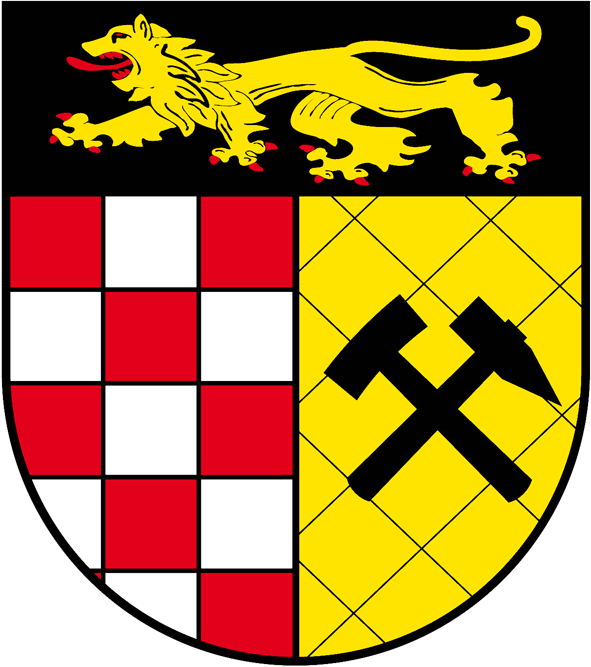 Coat of arms of Reckershausen